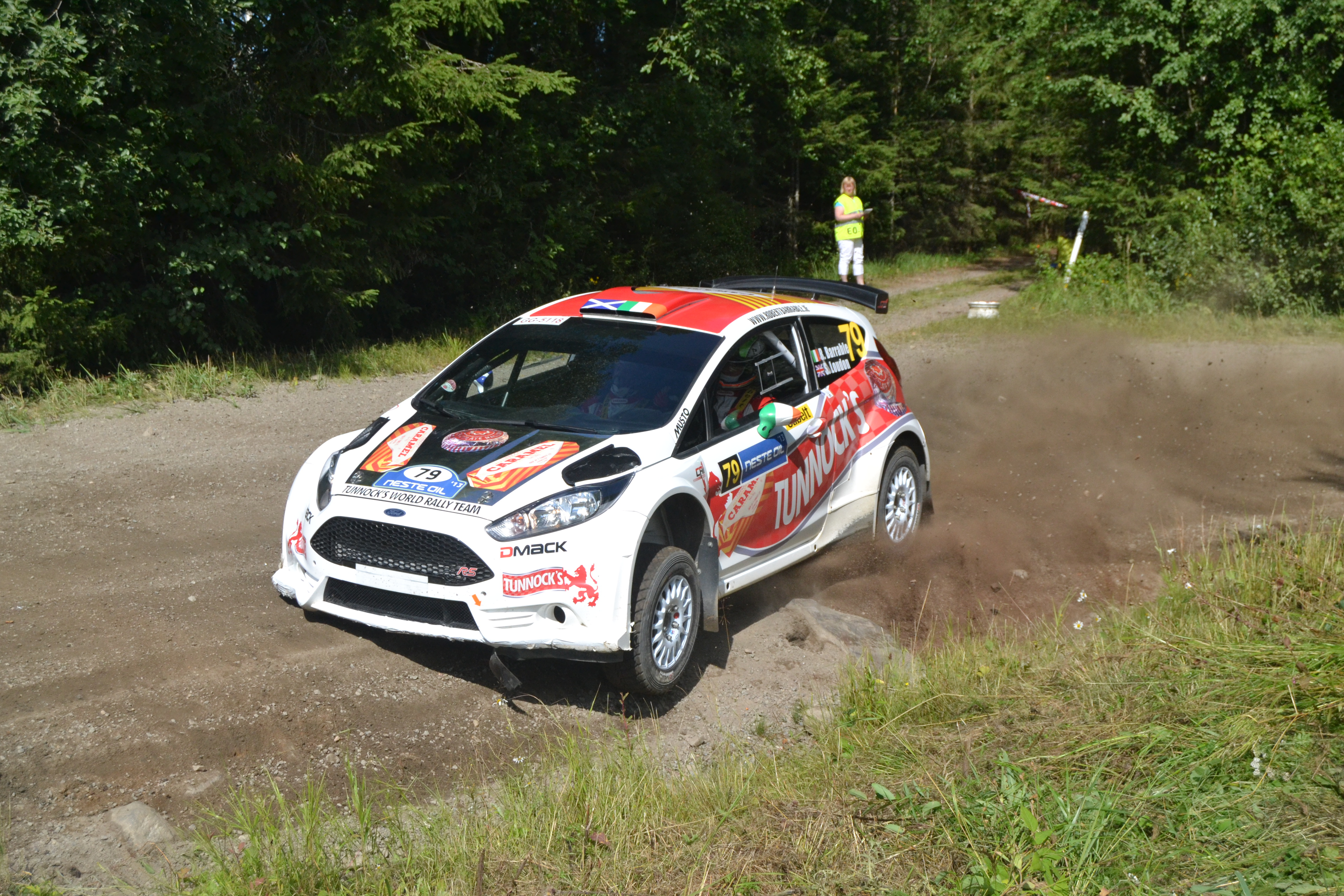 Robert Barrable at 2nd Surkee stage at 2013 Rally Finland